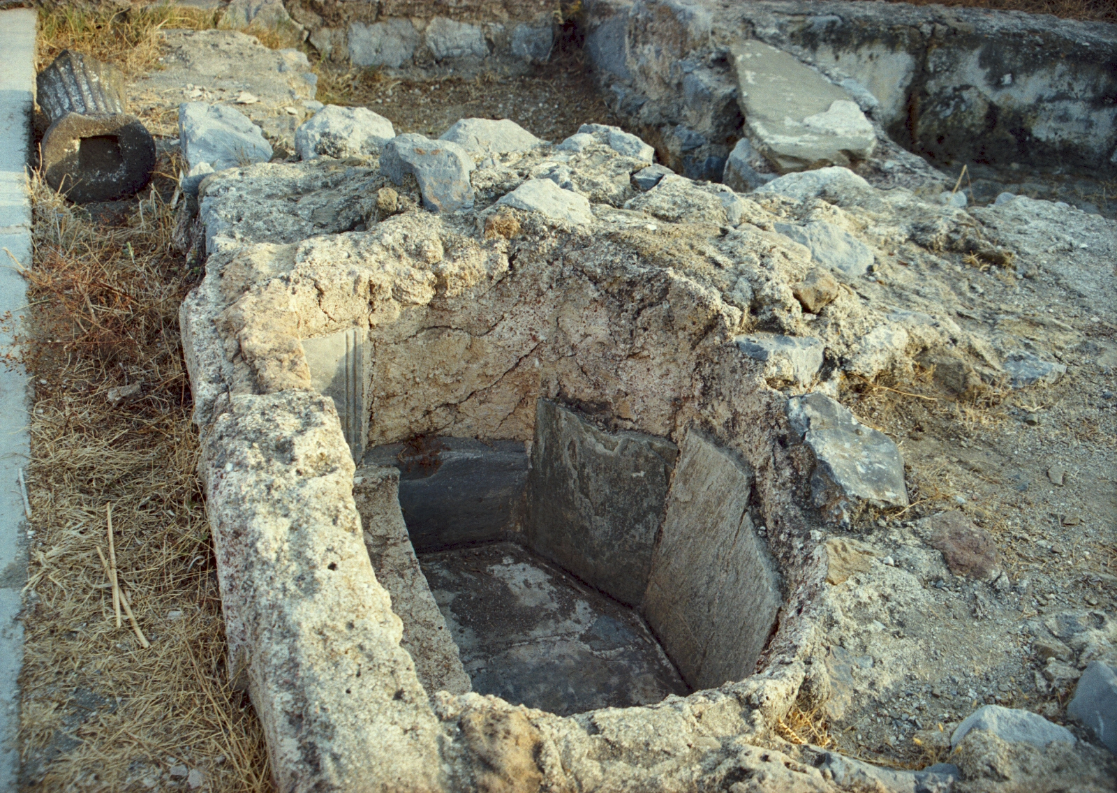 Excavations in Maltezana (Astypalaia), 1996.